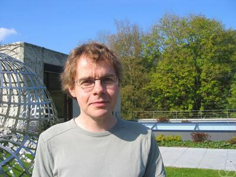 Vincent Beffara, Oberwolfach 2007